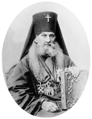 Archbishop Yoannikiy (Gorski) of Odessa